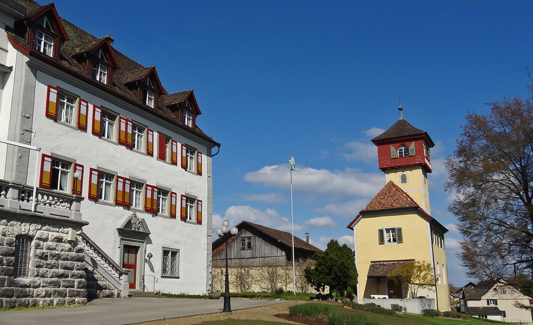 Berg Castle, canton of Thurgau, Switzerland